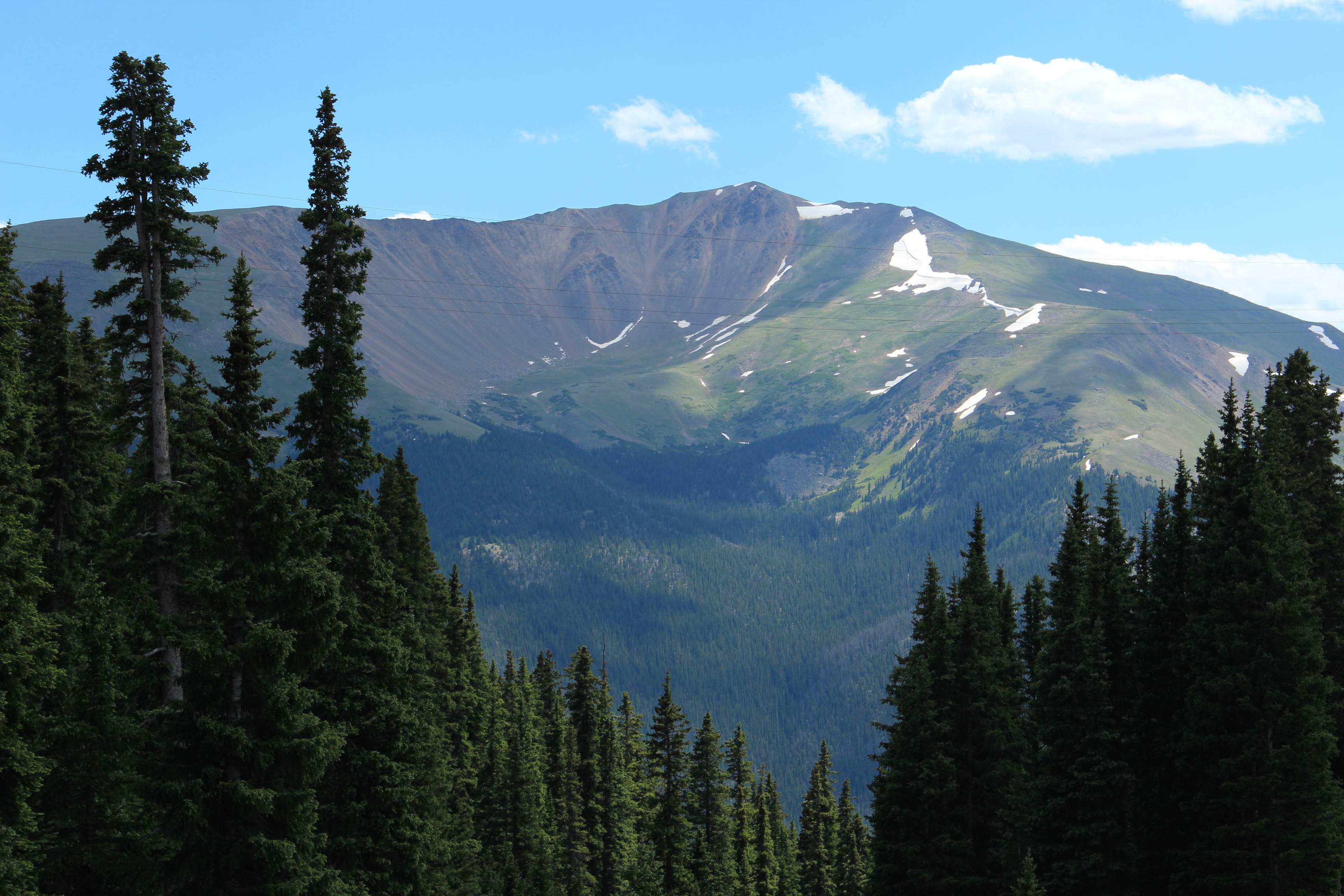 Engelmann Peak viewed from Berthoud Pass, July 2016